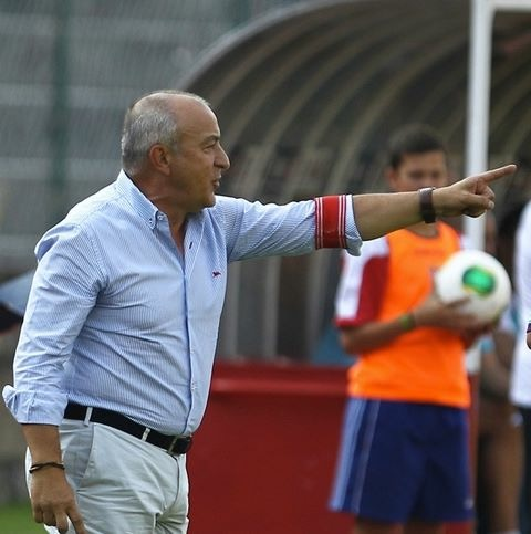 Costa Picture taken during Braga B soccer game.